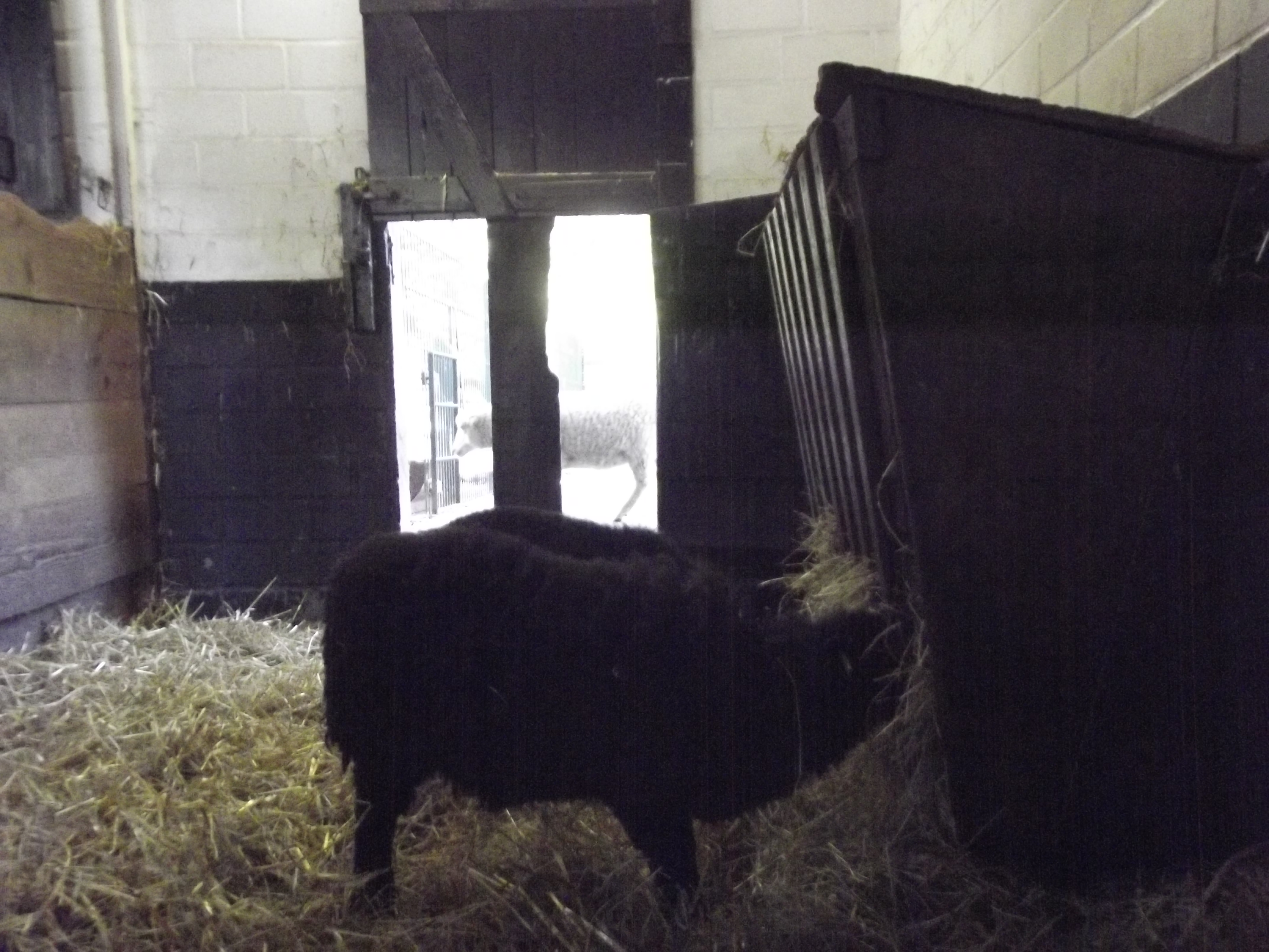 Farm museum "Vechtehof", Tierpark Nordhorn